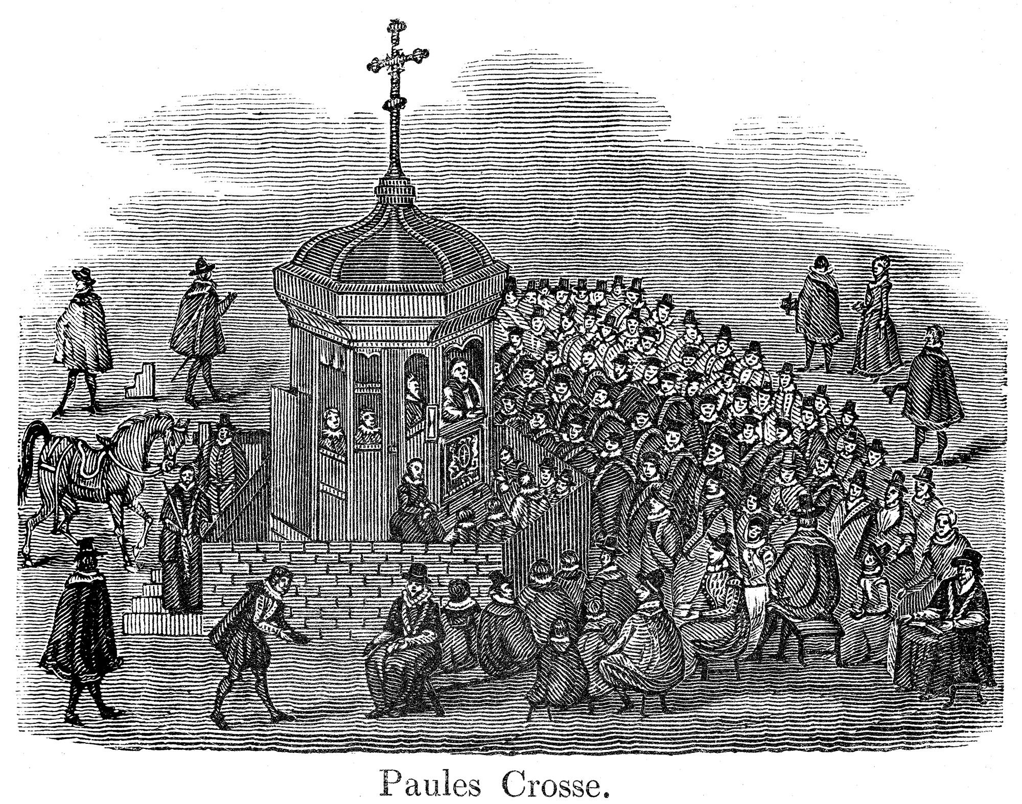 Paul’s Cross, an open air pulpit on the grounds of St Paul’s Cathedral in London, where many English Reformers preached.